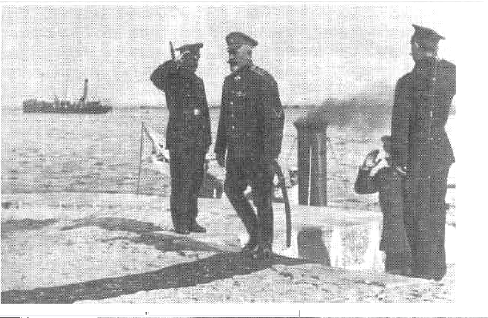 Прибытие генерала Деникина в английскую союзническую миссию, 1919 год, Таганрог